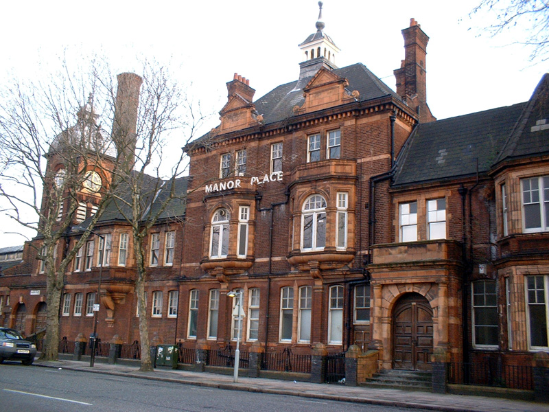 Manor Place Baths, Walworth, Southwark, London. Taken by C Ford, March 04.